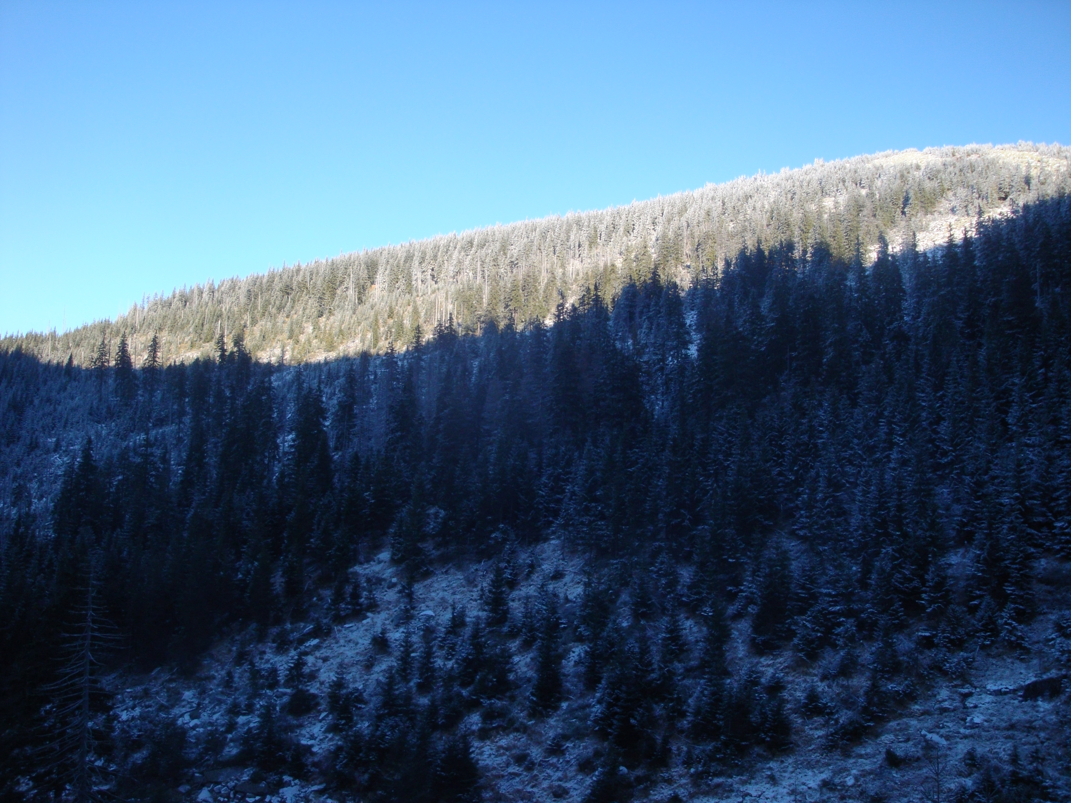 Valley of Bila Laba in Czech Krkonos.